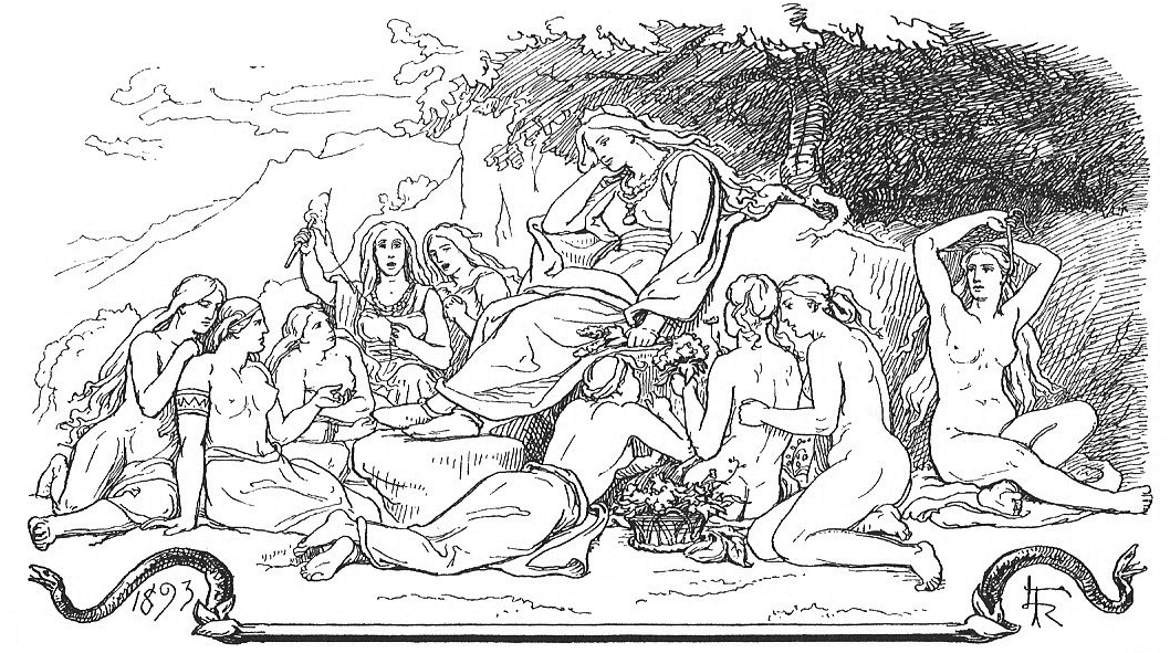 Menglöð surrounded by nine maidens as described in Fjölsvinnsmál.